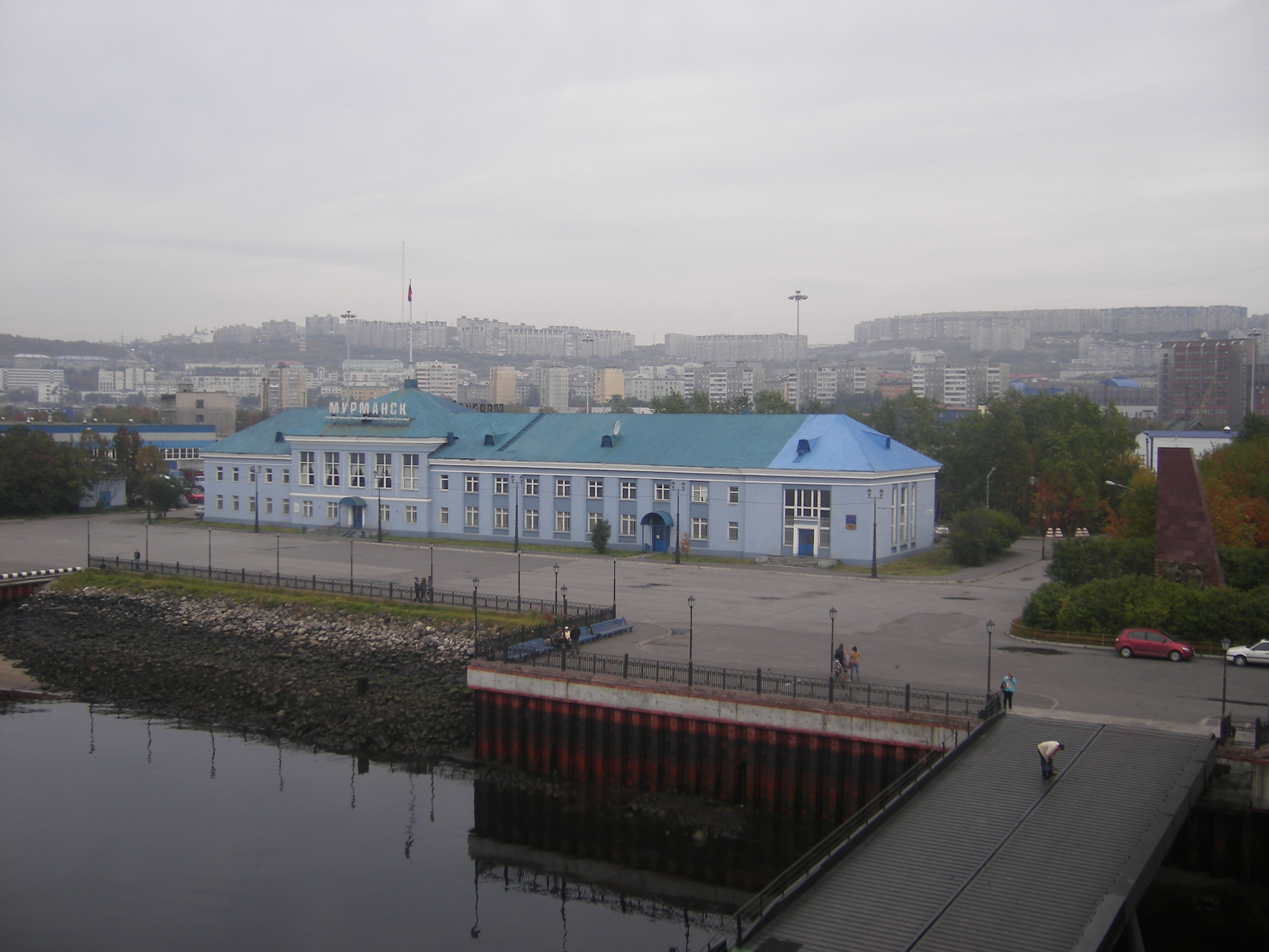 Murmansk seaport building